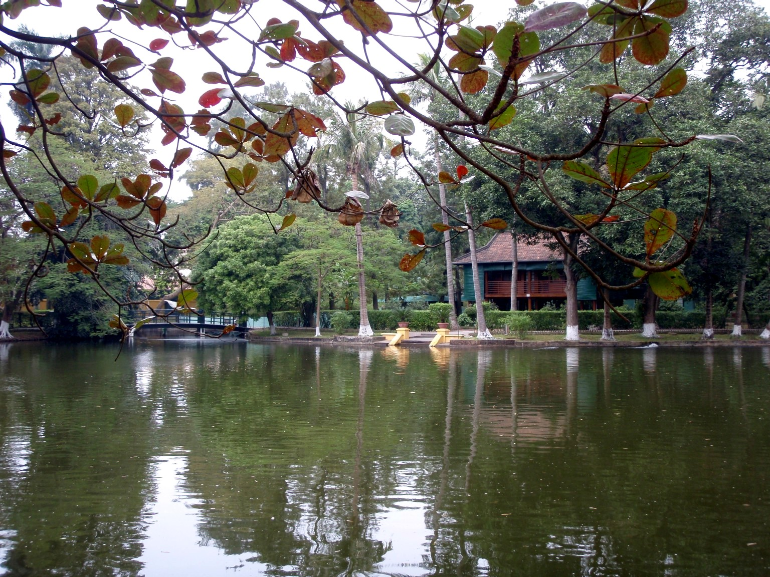 Ho Chi Minh Stilt House.